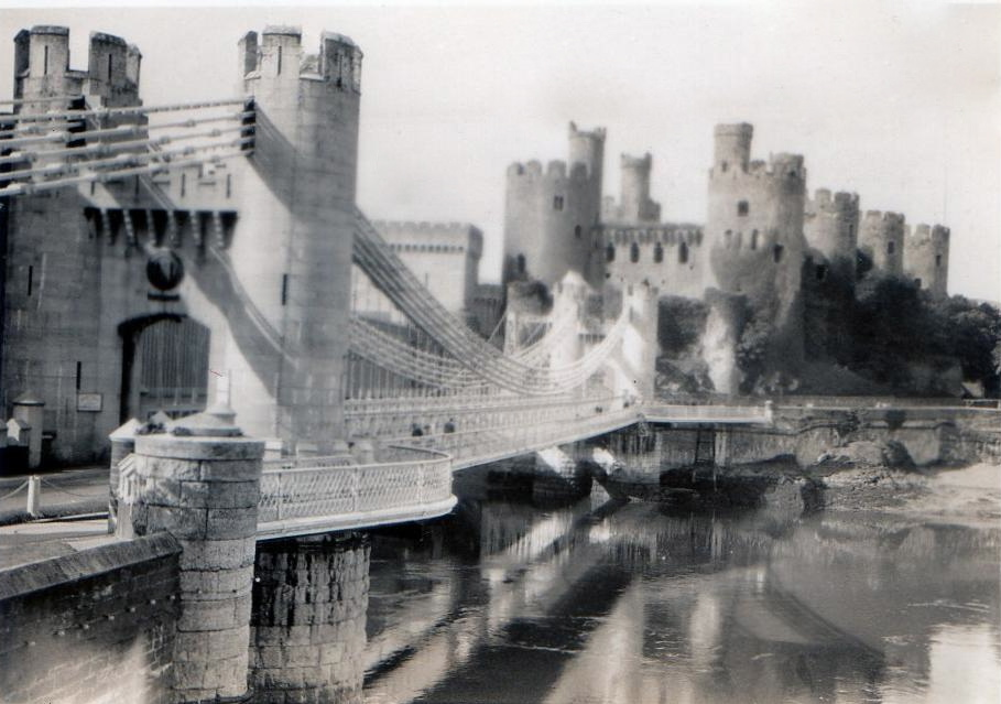 Conwy Castle, Wales